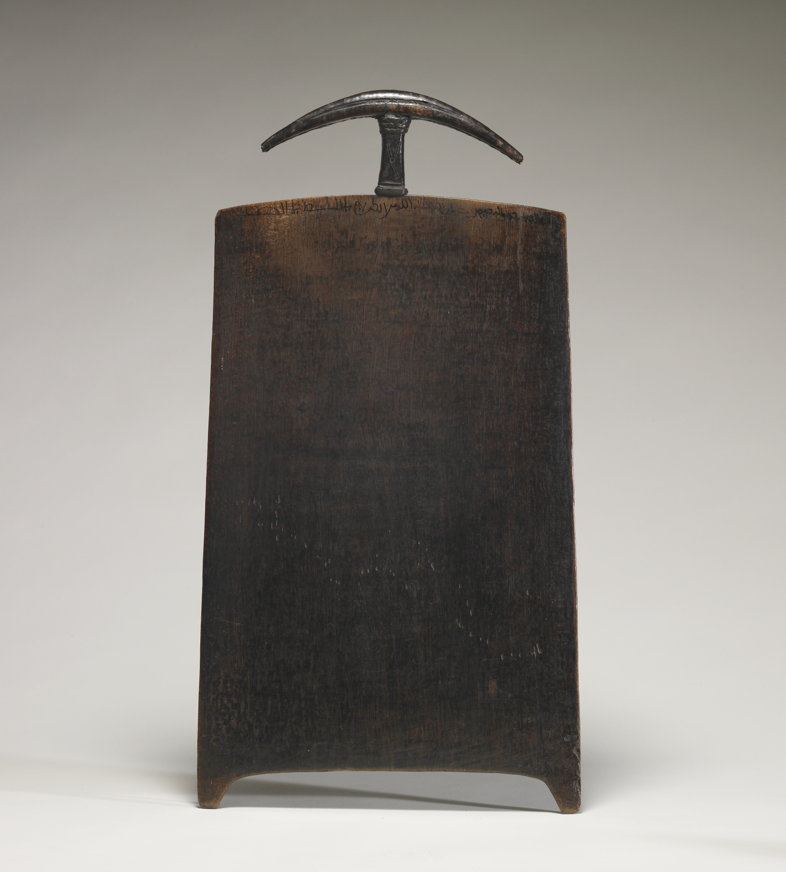 From an early age, Muslims are encouraged to memorize the Qur'an. By adulthood, many can recite long passages, if not the entire text. In Qur'anic schools across northern Africa, students commit verses of the Qur'an to memory by writing them on Qur'an boards, or "lawh." Faint traces of words are still visible on this example. Once a verse was memorized, the board was washed off with water, and the student could start afresh. The water was treated with great reverence, for it was believed to contain the words of God and at times was used to ward off illnesses.